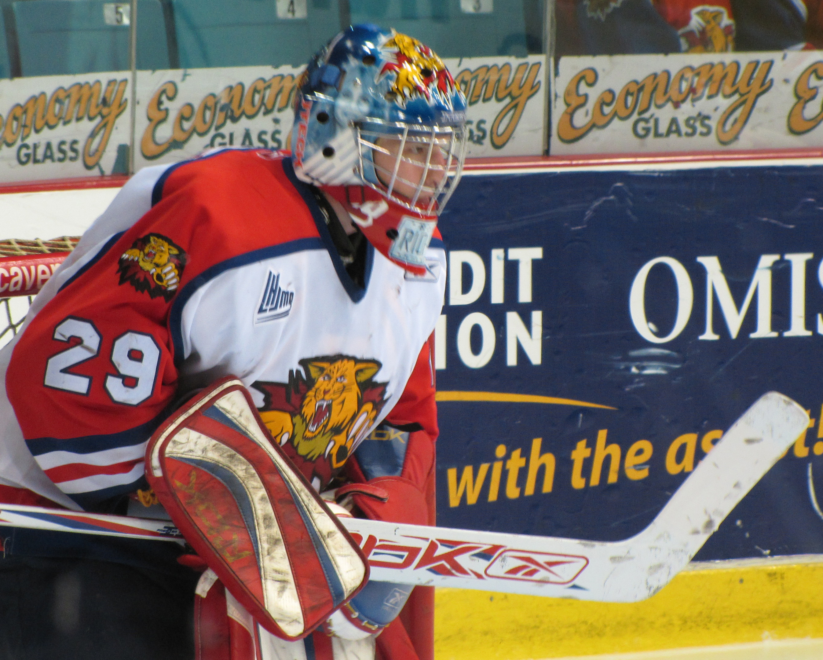 Moncton Wildcats Goaltender Nicola Riopel playing at the Moncton Coliseum.